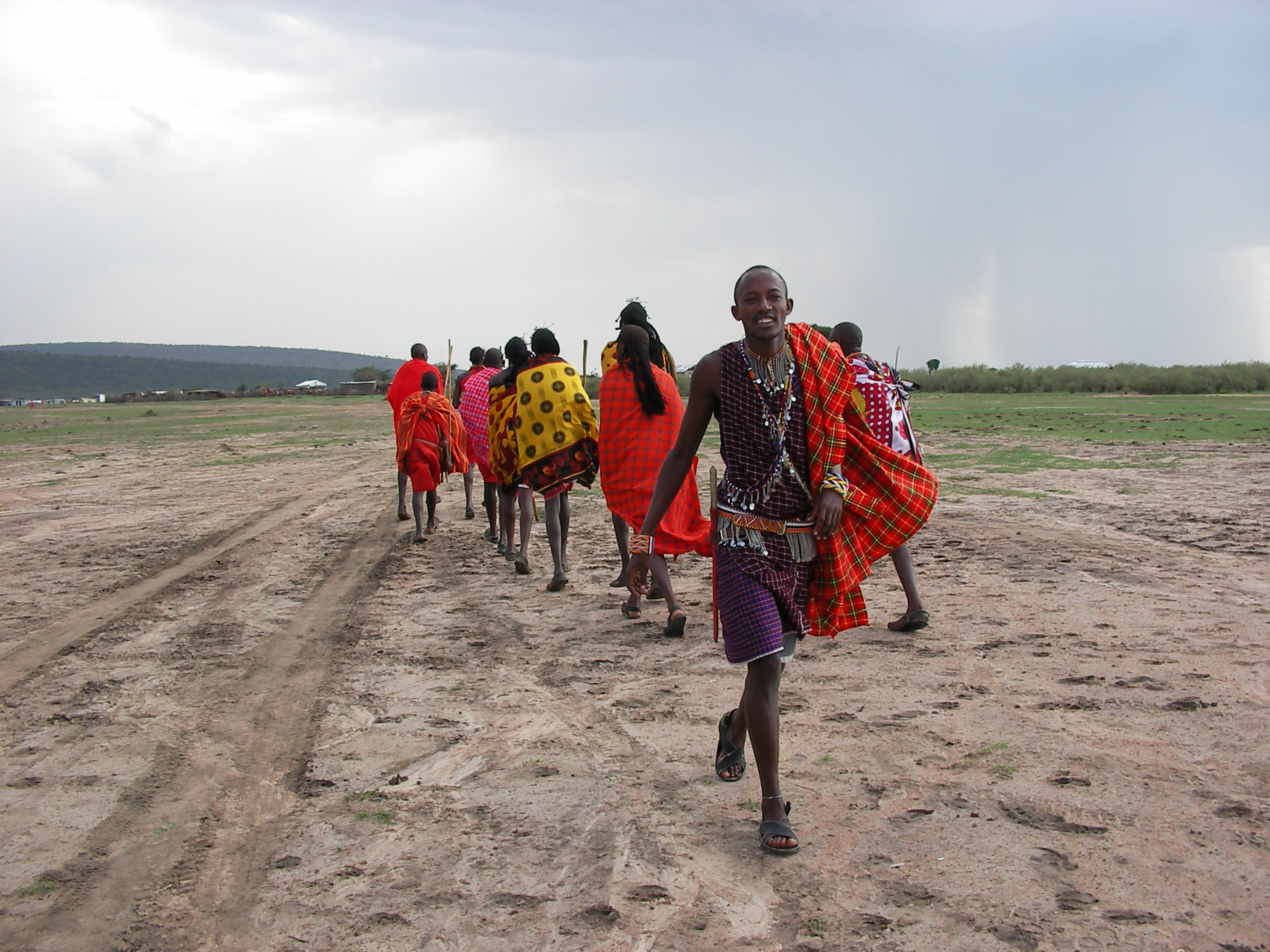 A group of Maasais.